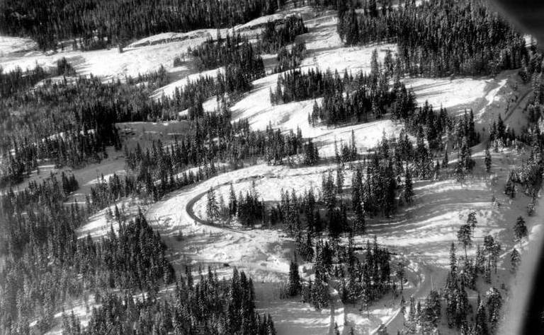 Olympic bobsleigh course Korketrekkeren in Oslo, Norway